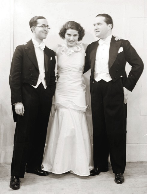 Alfred Schütz (1910-1999) – Polish composer, Włada Majewska (1911-2011) – Polish actress and Singer and Wiktor Budzyński (1906-1972) – Polish journalist